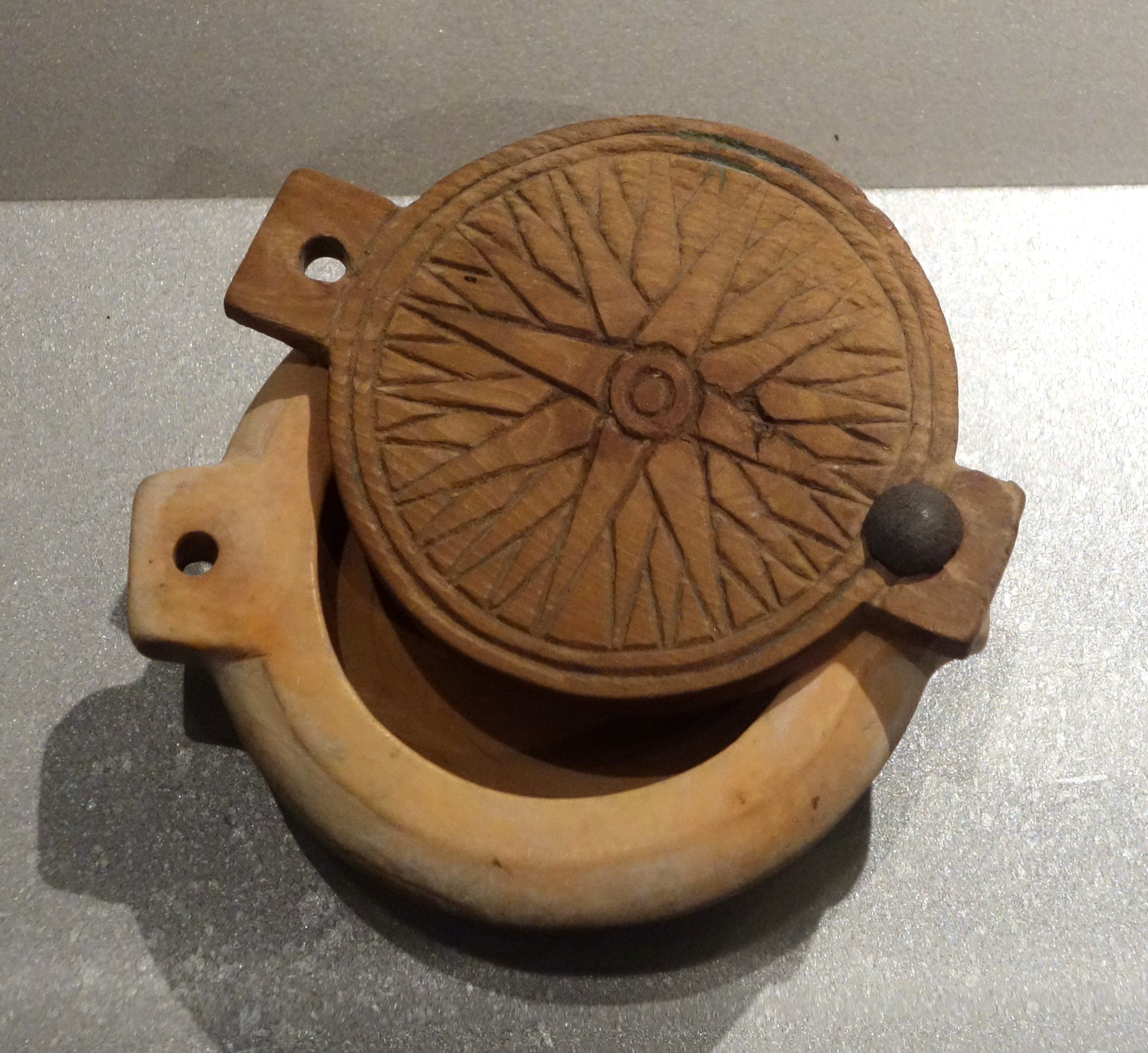 A circular ivory toilet dish, probably hippopotamus ivory, with a swivel wooden lid that is decorated with an incised rosette representing a lotus.